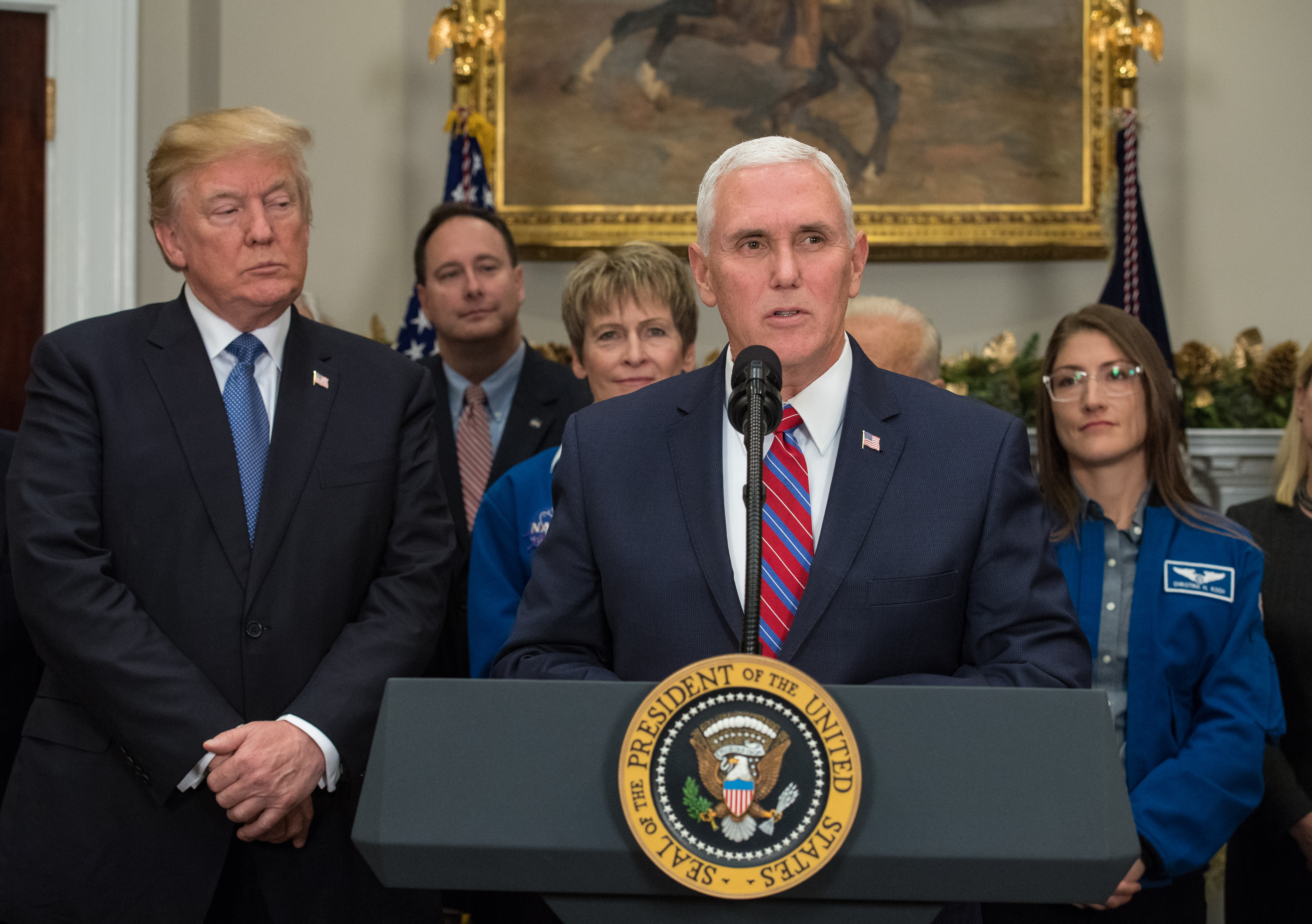 Vice President Mike Pence speaks before President Donald Trump signs the Presidential Space Directive - 1, directing NASA to return to the moon, alongside President Donald Trump. left, Acting NASA Administrator Robert Lightfoot, second left, NASA astronaut Peggy Whitson, third from left, NASA astronaut Christina Koch, right, and members of the Senate, Congress, and commercial space companies in the Roosevelt room of the White House in Washington, Monday, Dec. 11, 2017.